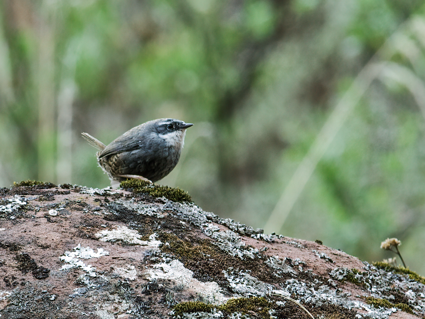 Zimmer's Tapaculo from Los Cardones National Park, Salta, Argentina